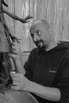 Dirk De Keyzer